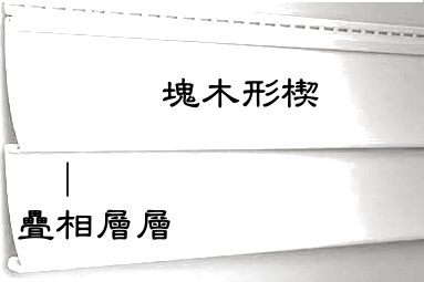 The illustration of the clapboard structure.